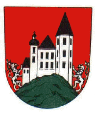 Žumberk CoA CZ